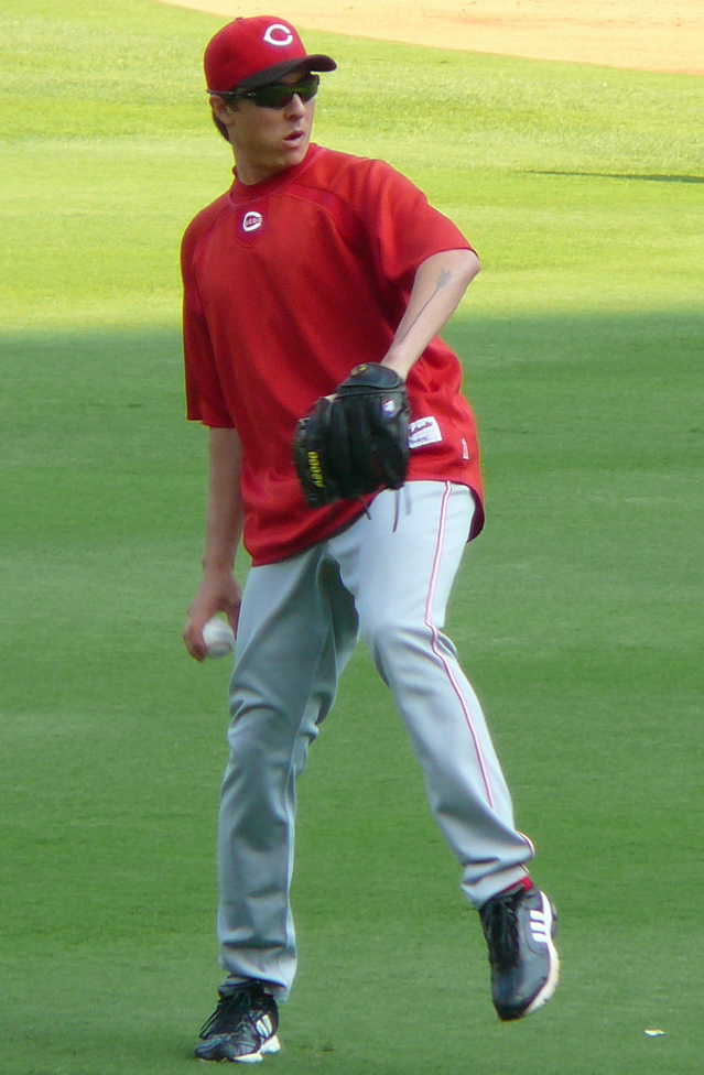 If used somewhere other than Wikipedia, Nelson, by name. 04:40, 20 September 2009 . . Chrisjnelson . . 639×976 (478 KB)